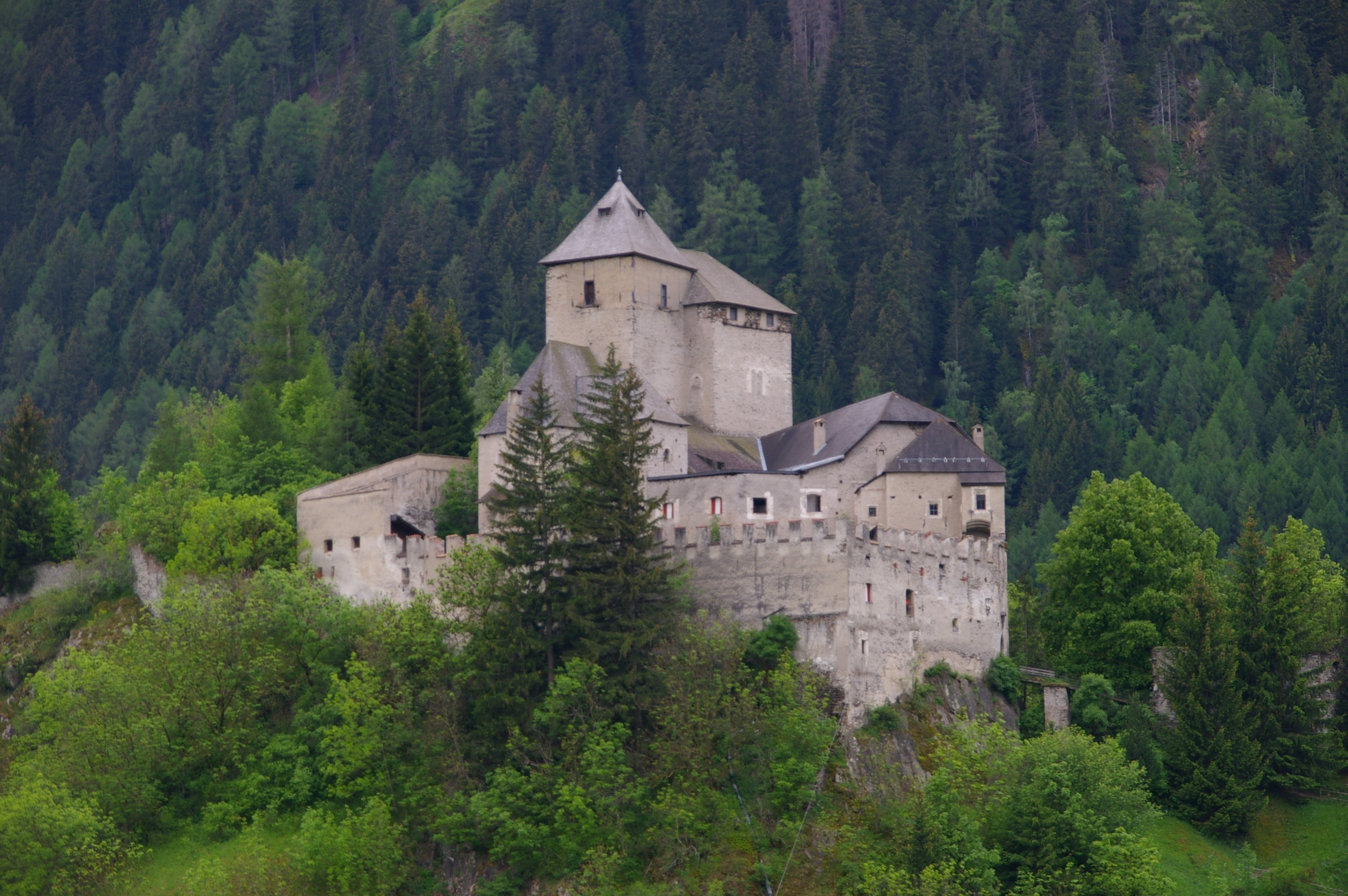 Reifenstein Castle, near Sterzing